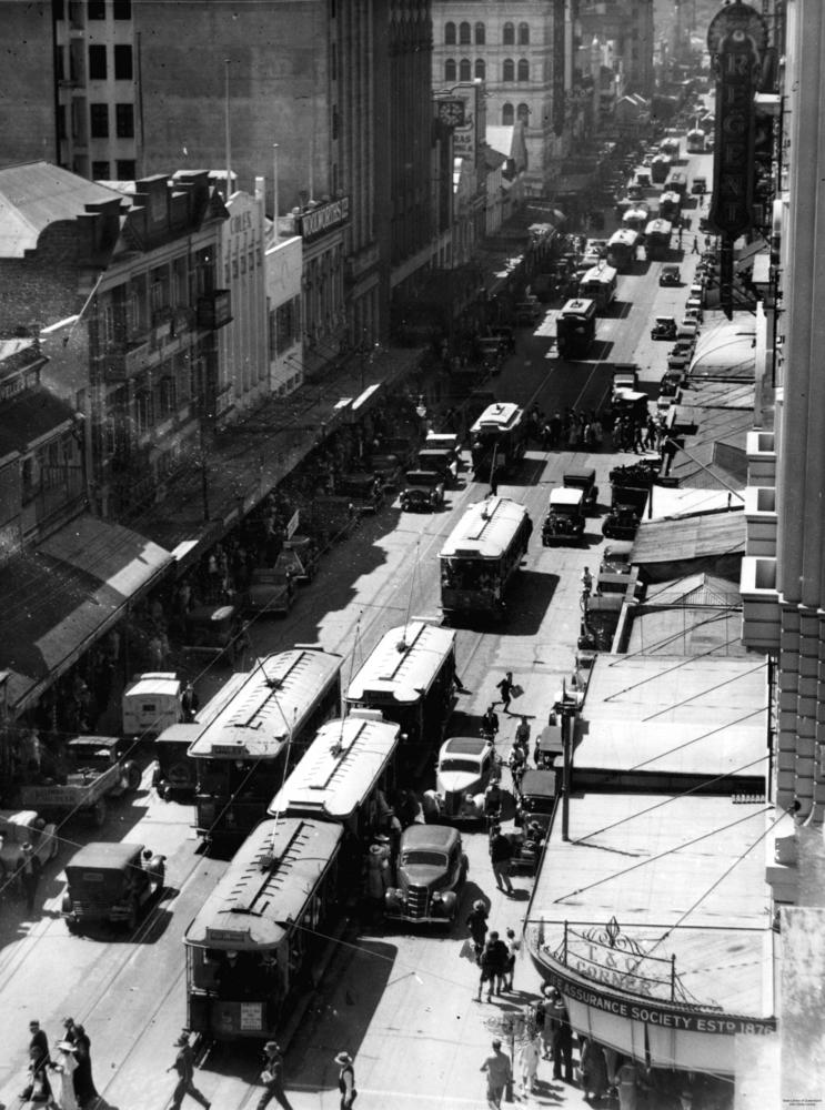 Queen Street, Brisbane, ca. 1935 Elevated view of Queen Street. Trams, cars, and pedestrians are passing up and down. The Australian Temperance and General Mutual Life Assurance Society, Ltd., can be seen in the bottom right corner. A sign for the Regent Building is prominent further along on the right hand side of the street. Across the road stand buildings such as the Brisbane Arcade, Coles and Co. Ltd., Oakden Chambers, Woolworths Ltd., and the National Bank Chambers.